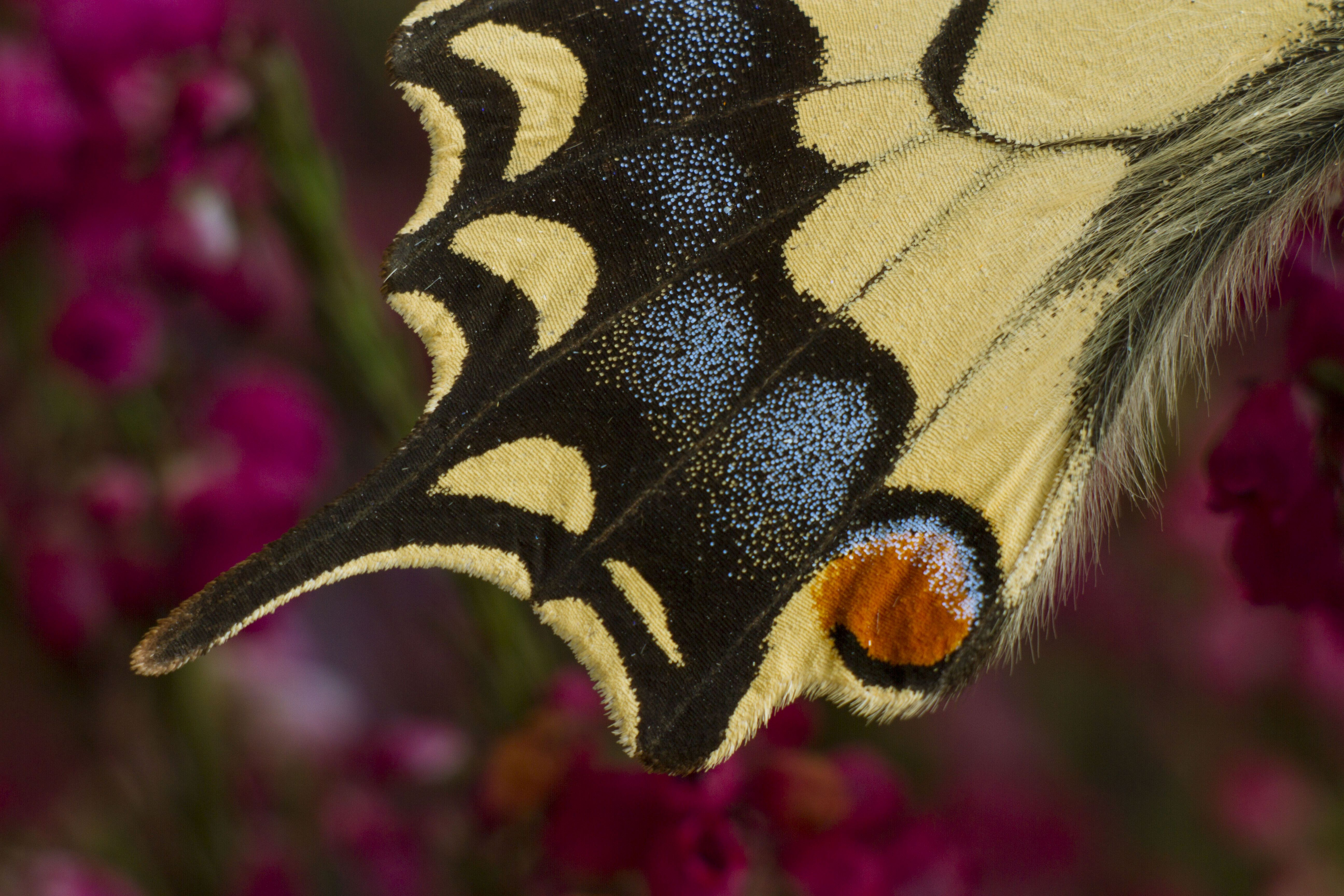 Part of Papilio machaon's wing, macro (photography)